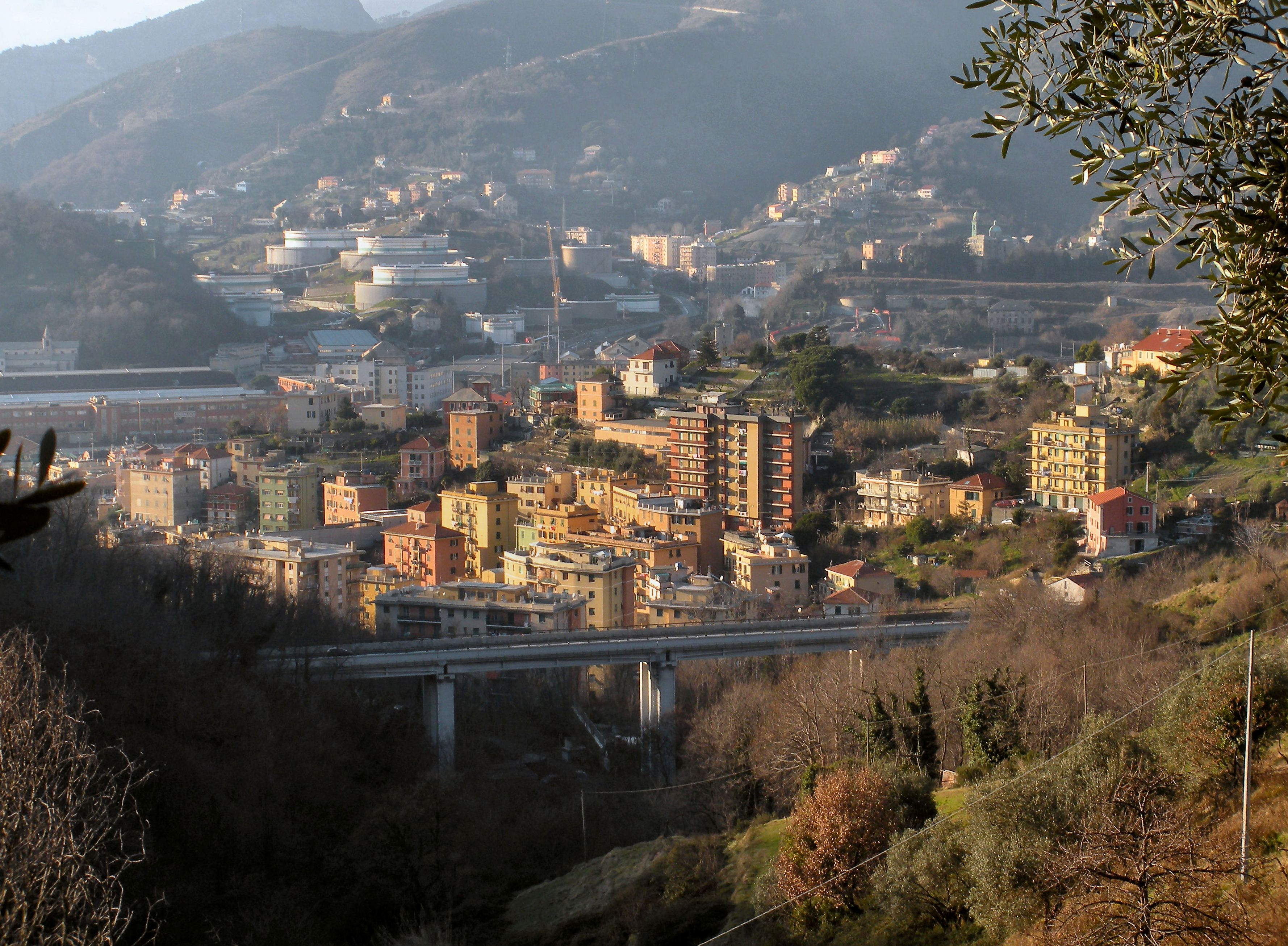 Genoa (Italy), quarter of Rivarolo, Pigna hill and the quarter said Bersaglio